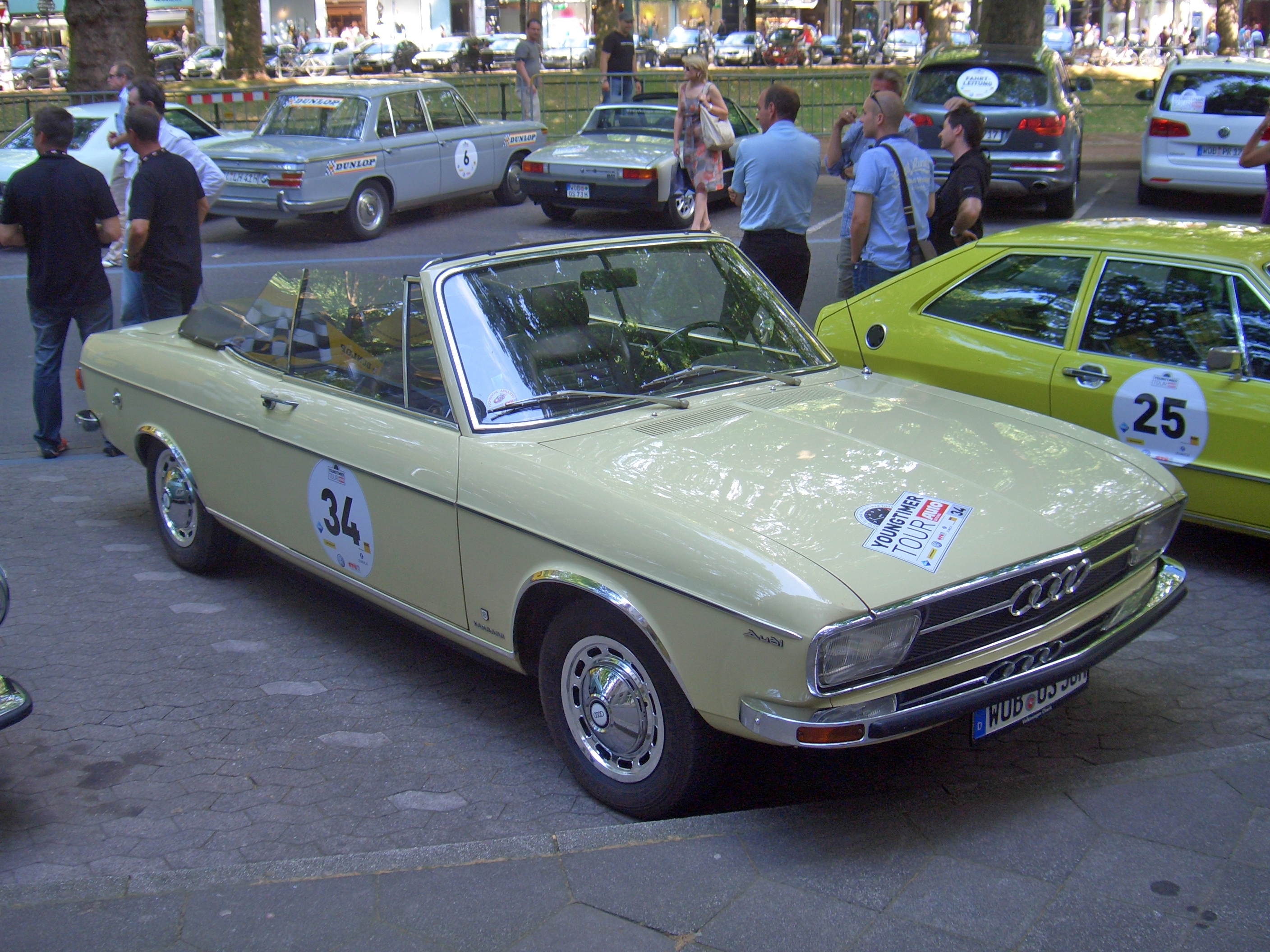 Audi 100 LS Cabriolet Karmann (C1, F 104), seen at AUTO ZEITUNG Youngtimer Tour 2011, finish at Königsallee, Düsseldorf